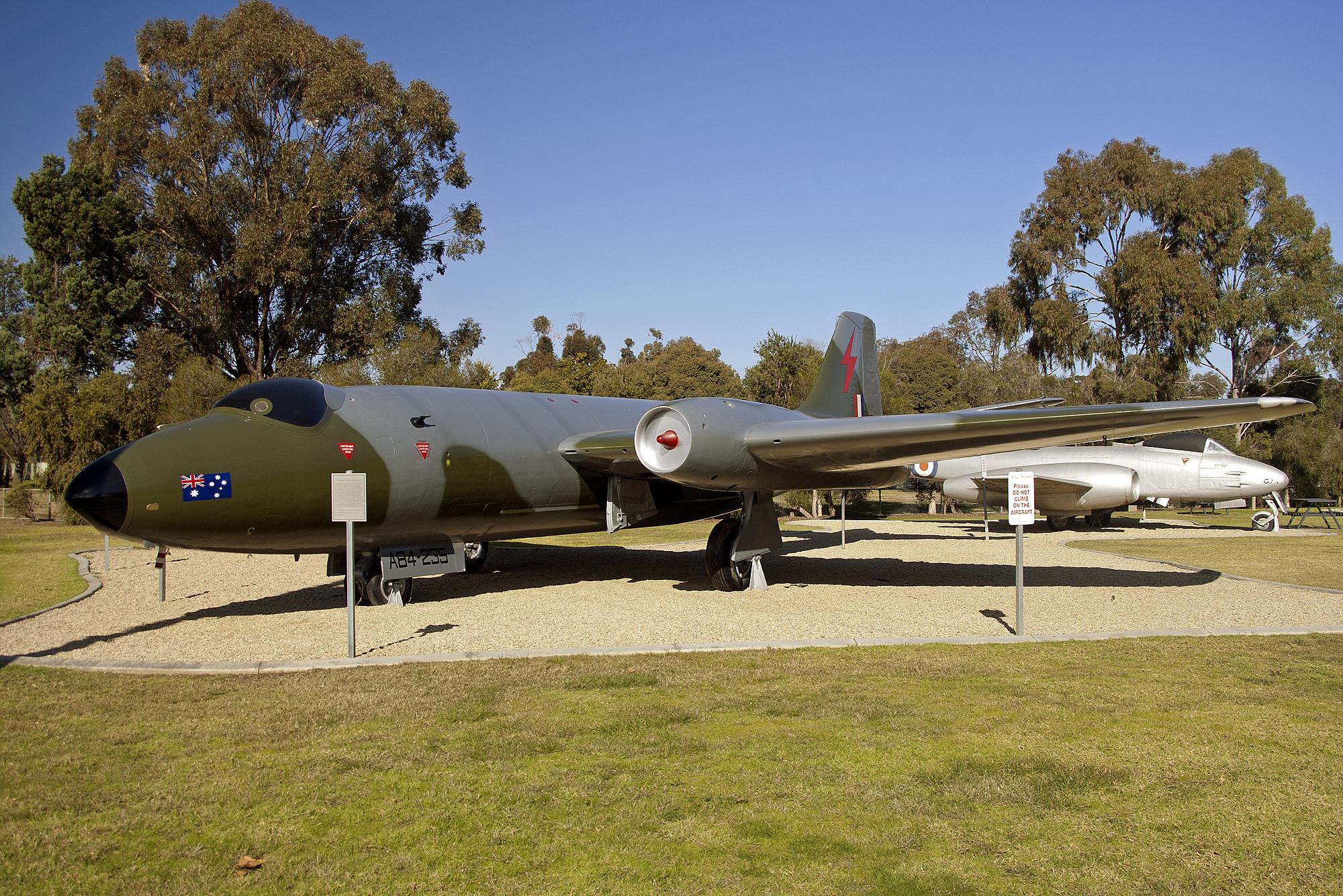 A84-235 Mk 20 English Electric Canberra at RAAF Base Wagga, after the completion of restoration work in April and May 2011.